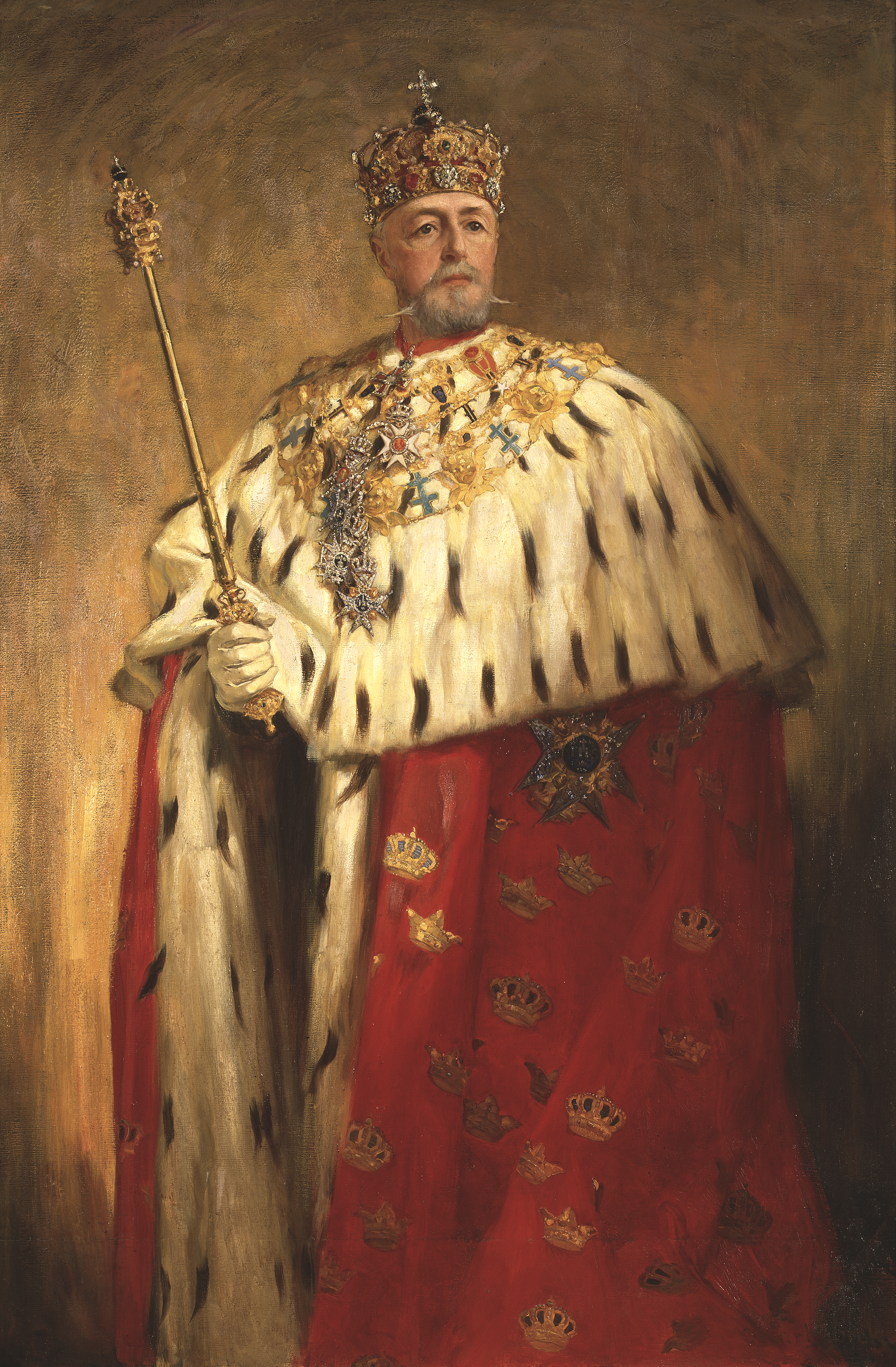 "The brilliantly coloristic portrait of King Oskar II was painted by Oscar Björck for the royal silver jubilee – a last visual manifestation of royal power by divine right."